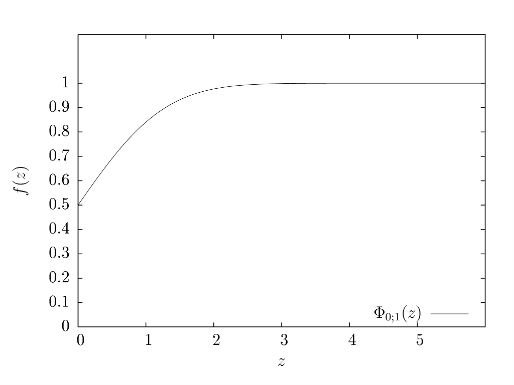 Graph of the standard normal distribution (cumulative distribution function)(de: Graph der halbseitigen Kurve der Standard Normalverteilung (Verteilungsfunktion)) Φ 0 ; 1 ( z ) = 1 2 π ∫ − ∞ z e − 1 2 t 2 d t {\displaystyle \Phi _{0;1}(z)={\frac {1}{\sqrt {2\pi }\int _{-\infty }^{z}e^{-{\frac {1}{2 t^{2 \mathrm {d} t} , for 0 ≤ z ≤ 6 {\displaystyle 0\leq z\leq 6}